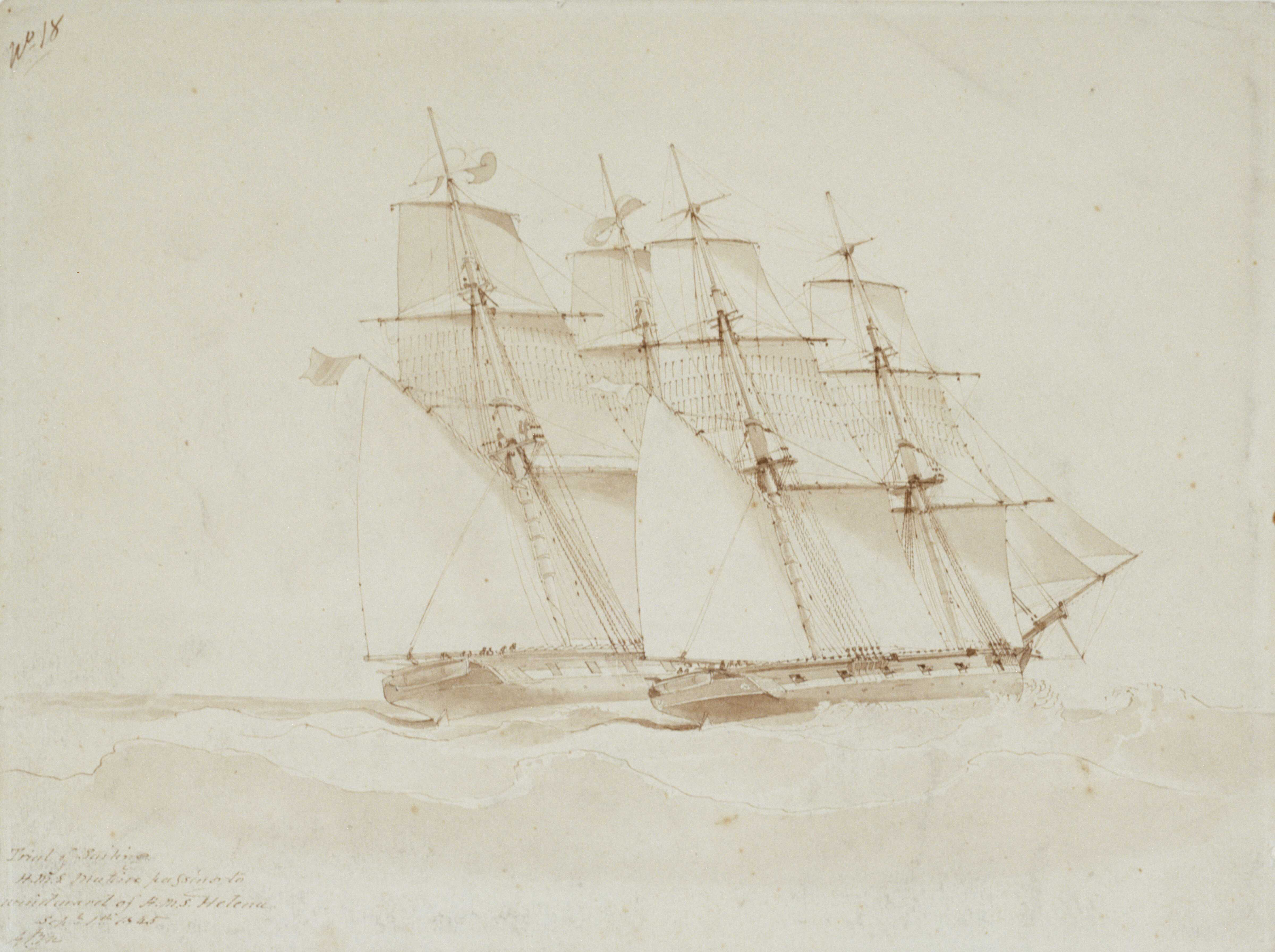 HMS 'Mutine' passing to windward of HMS 'Helena' in a sailing trial, 1 September 1845 Inscribed top left 'No.18.' and bottom left 'Trial of sailing / HMS Mutine passing to / windward of HMS Helena / Sep 1st 1845'. What is shown presumably occurred when Mends was first lieutenant of 'Mutine' at the Cape of Good Hope and the number in the top left corner also suggests it is one of a series of drawings he did of these sailing trials. 'Mutine' was a 12-gun brig built at Chatham in 1844 but wrecked near Venice four years later. HMS 'Mutine' passing to windward of HMS 'Helena' in a sailing trial, 1 September 1845